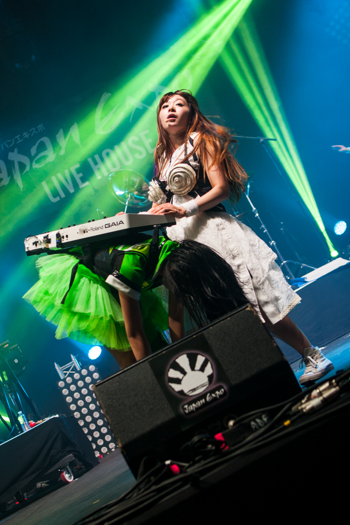 Gacharic Spin